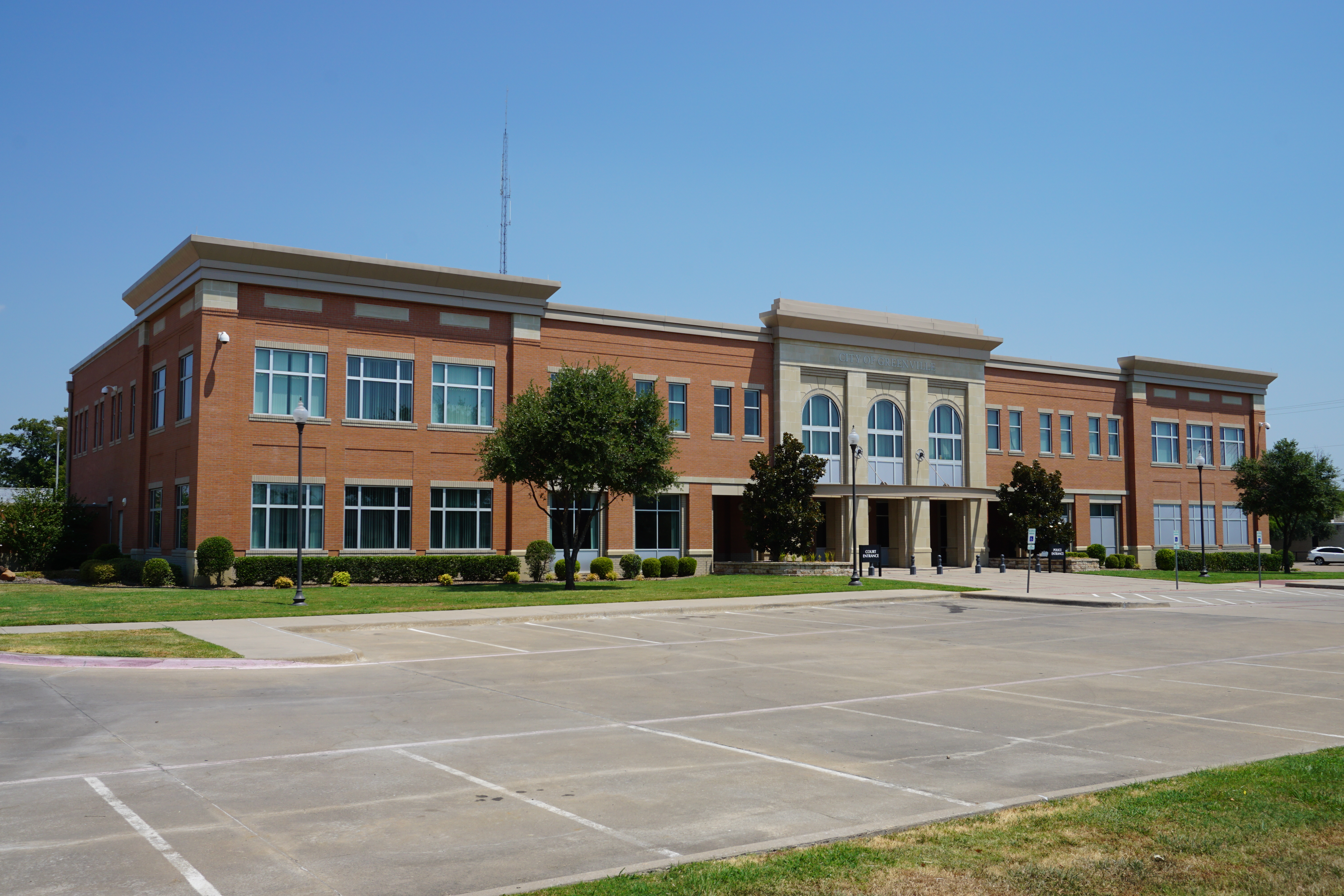 The City of Greenville Police & Courts building in Greenville, Texas (United States).